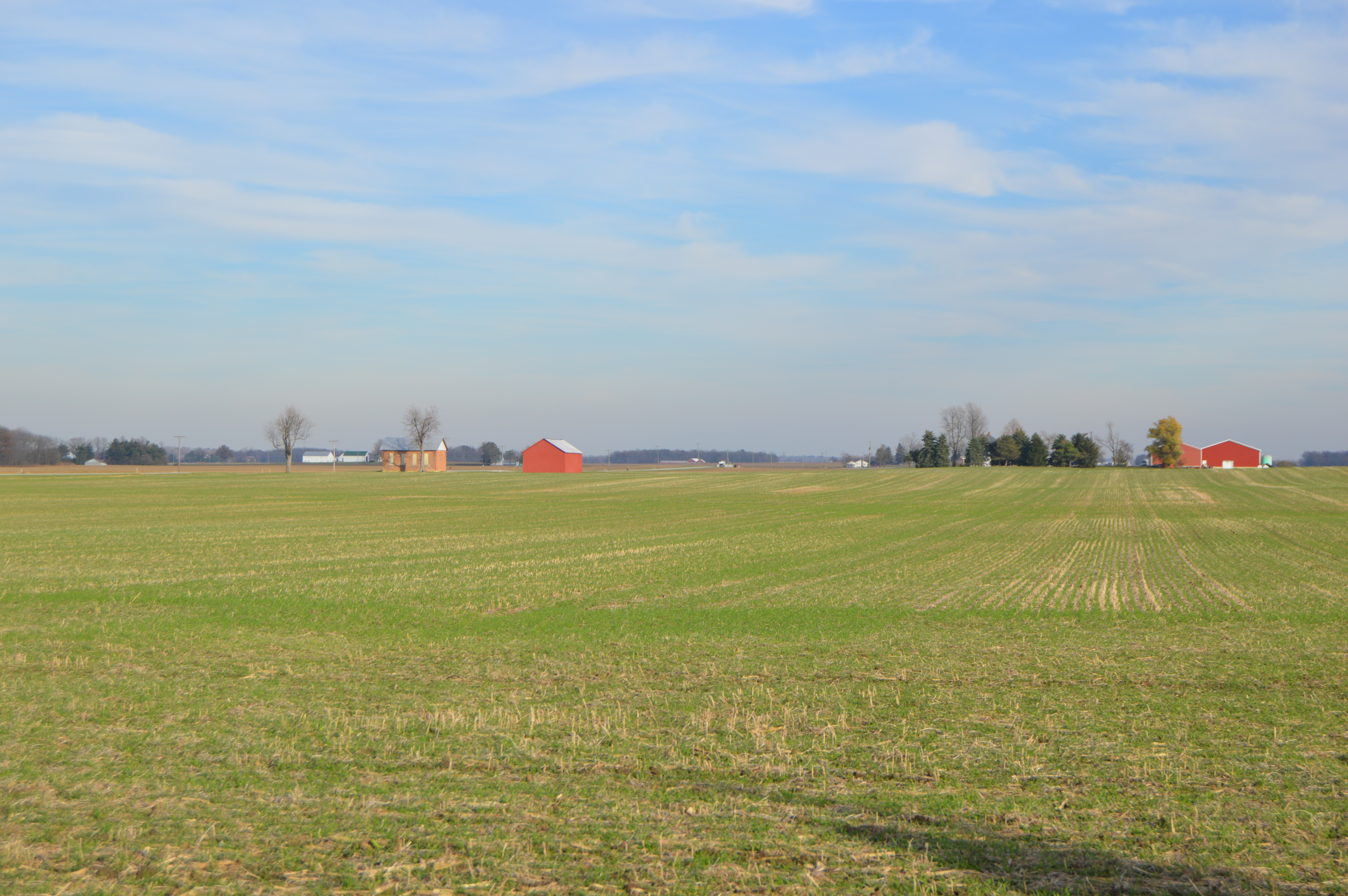 Fields on the eastern side of Young Road just south of the State Route 47 intersection in Jackson Township, Darke County, Ohio, United States.